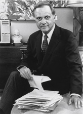 US Senator David Pryor from govt site